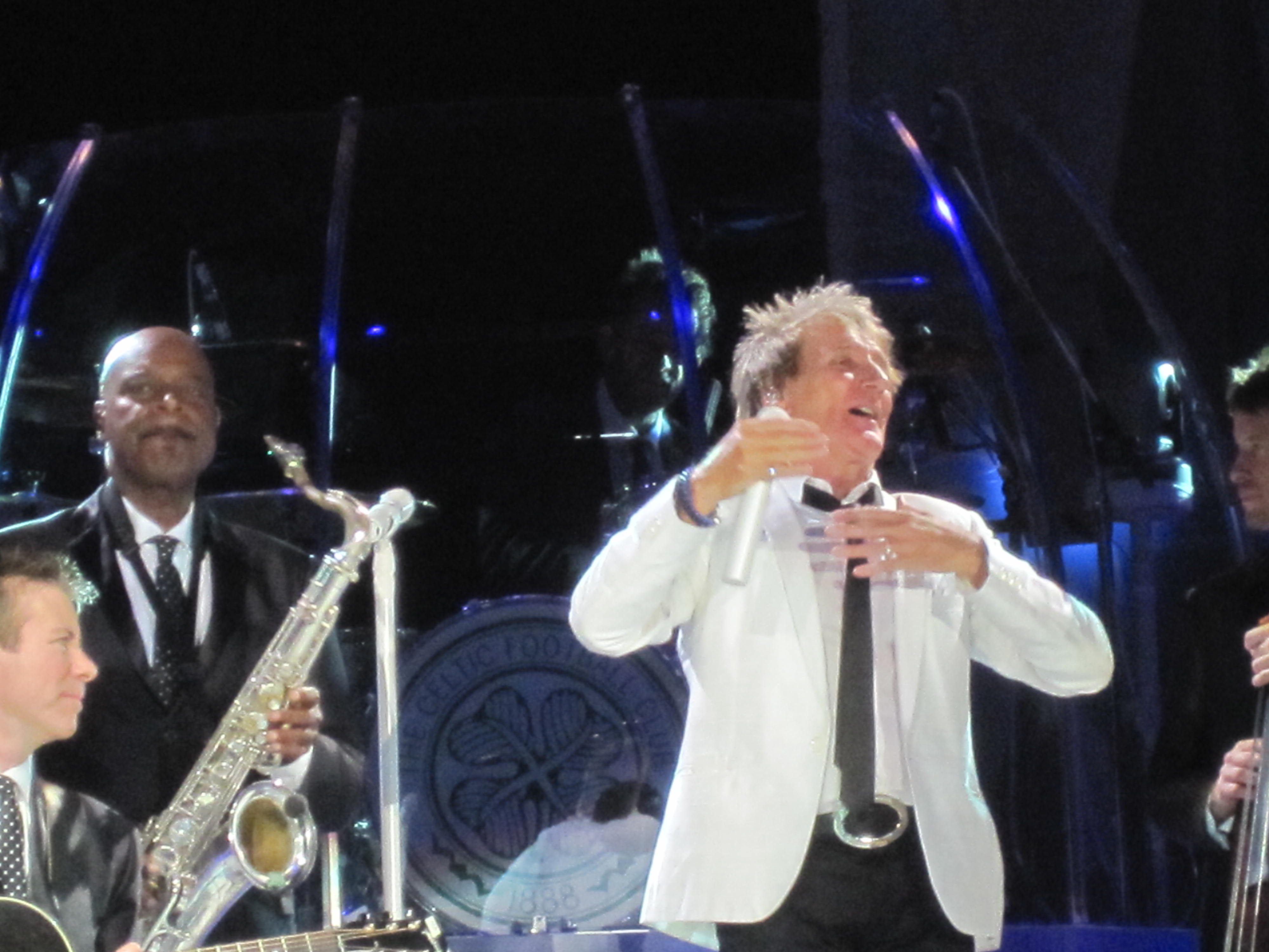 Live @O2 World Hamburg